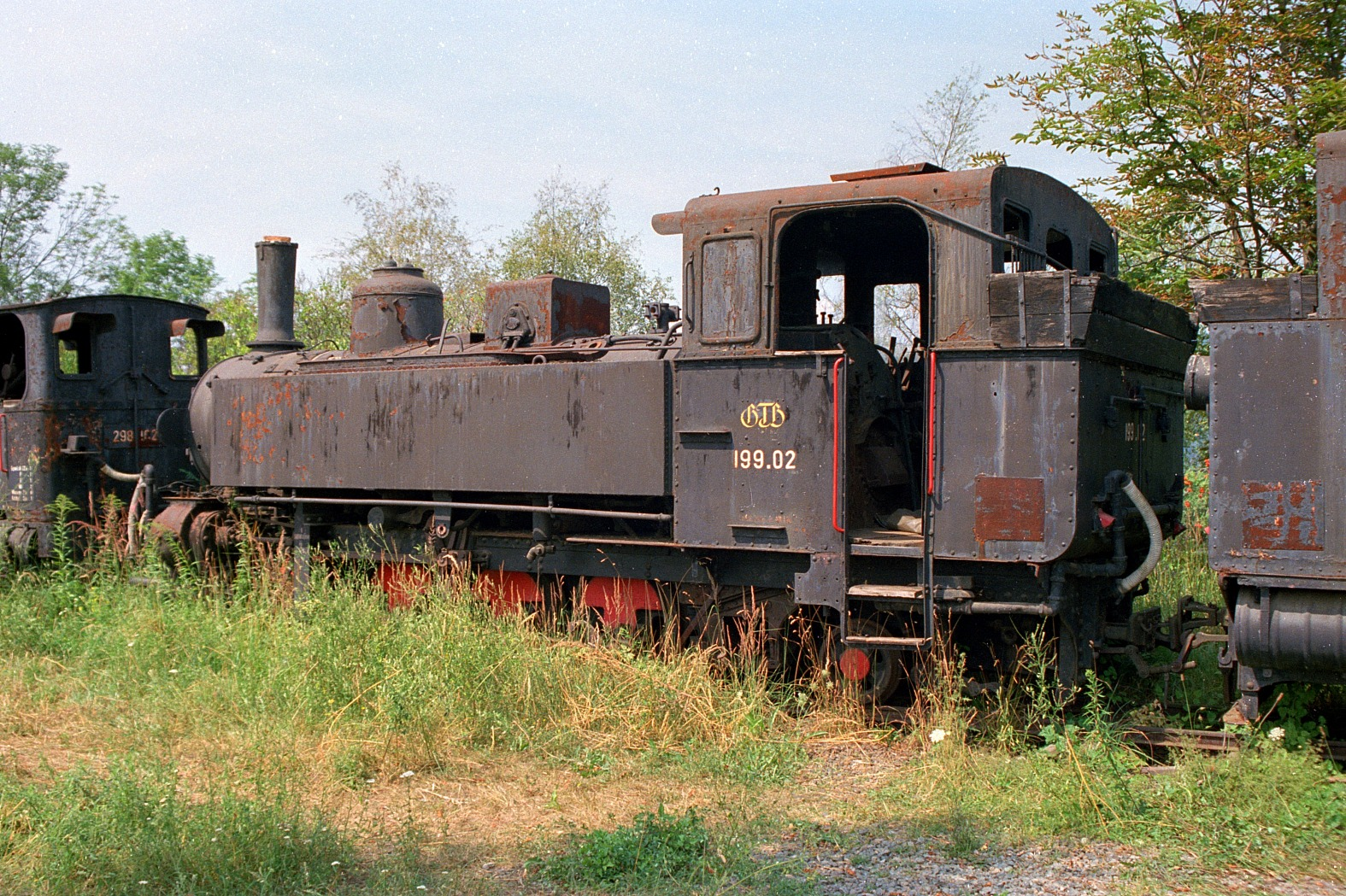 Former ÖBB narrow gauge steam locomotive 199.02 (BBÖ P-class) in Treibach-Althofen on the preserved Gurktalbahn line.